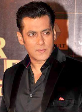 Salman Khan at Renault Star Guild Awards